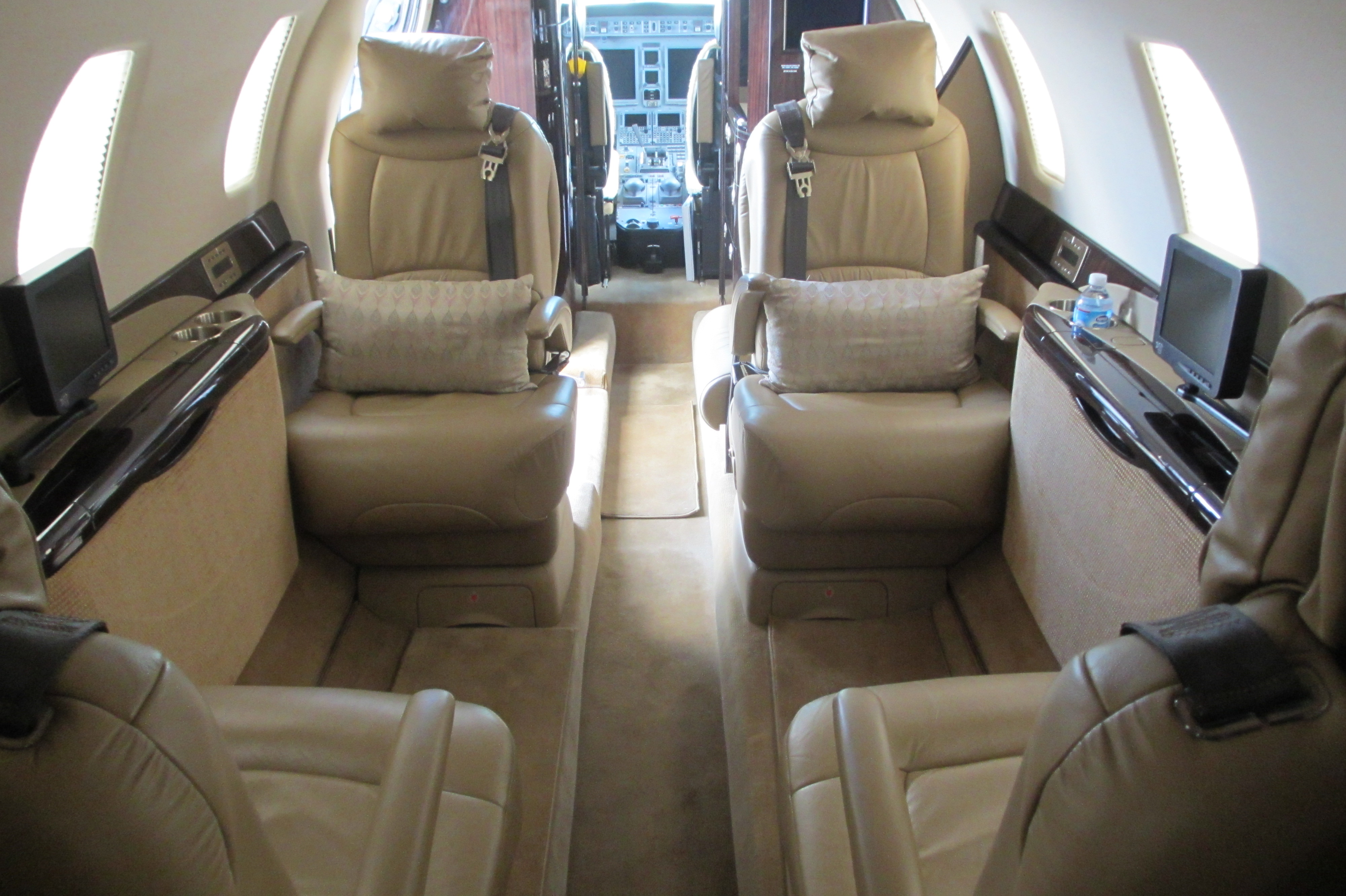 Cessna Citation Sovereign cabin forward view